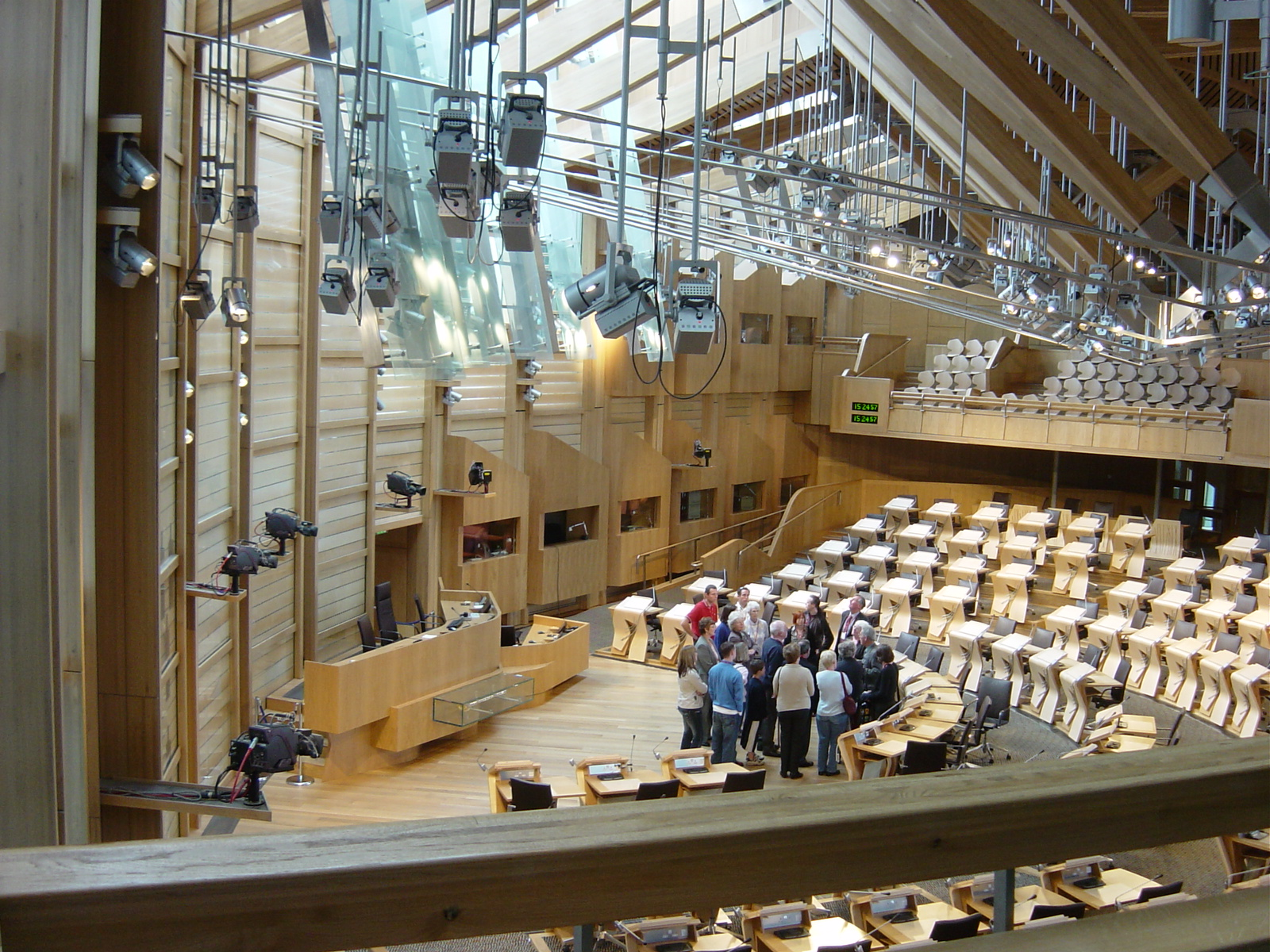 Scottish Parliament debating chamber creator: User:Jamieli